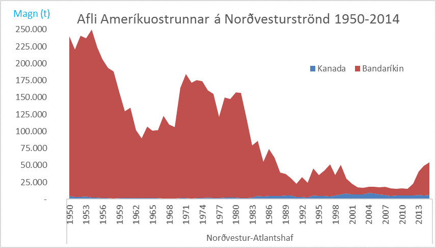 Oyster fishing of america